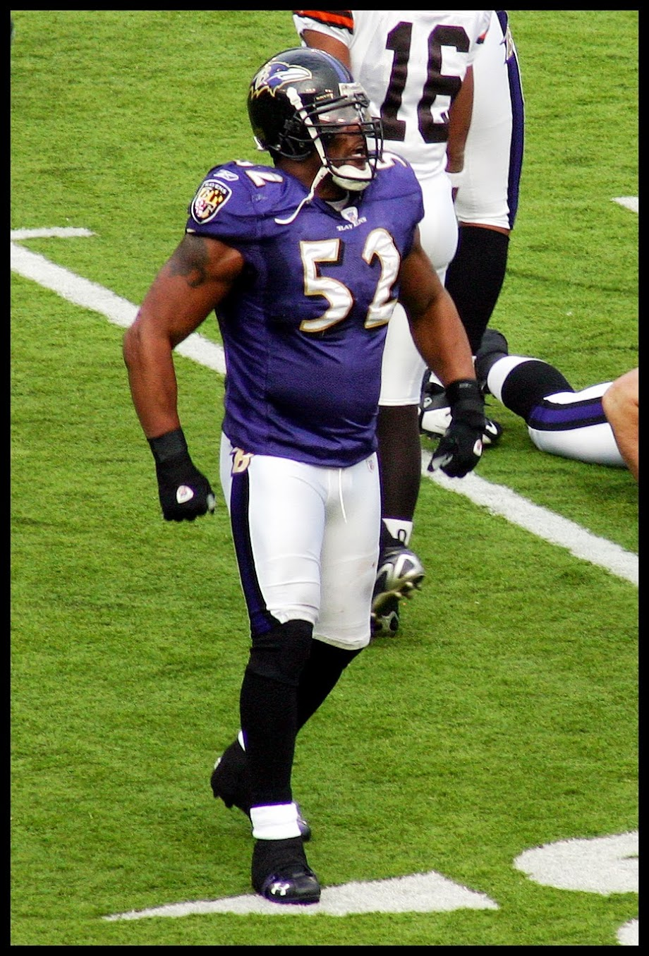 Ray Lewis during the Raven's 33-30 loss to the Cleveland Browns on November 18, 2007